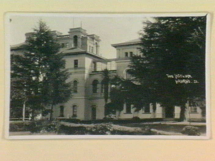 Ararat Lunatic Asylum